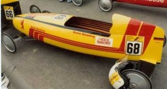 soap box derby car germany